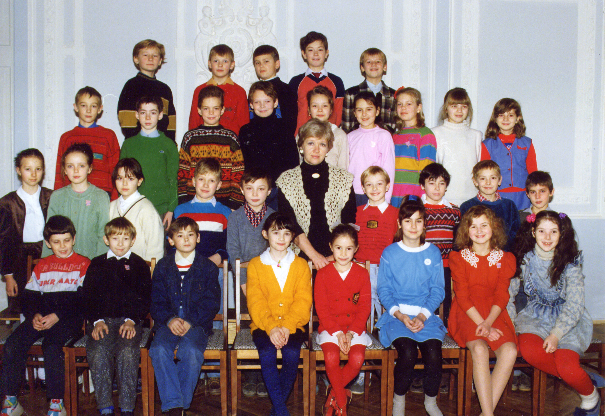 school class saint-petersburg